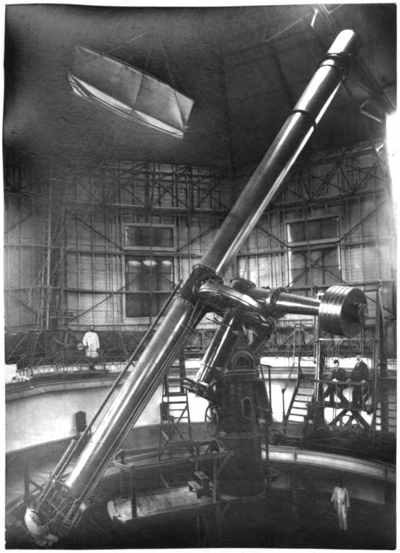 Refracting telescope, 76 cm (30 inch) aperture, installed at Pulkovo Observatory, near St. Petersberg, Russia in 1885. Its scale can be judged by the small human figures in the photo. Built by Repsold and Sons of Germany, it was one of the largest telescopes in the world at the time. Its focal length was 12.8 m (42 ft). During the Siege of Leningrad, 1944, the telescope was destroyed along with the rest of the observatory by German bombardment, but the valuable objective lens, cast by Alvan Clark & Sons, was saved. Caption: "The new 30-inch refractor of the Pulkowa Observatory, constructed by Repsold and Sons, 1884, Hamburg, Germany"